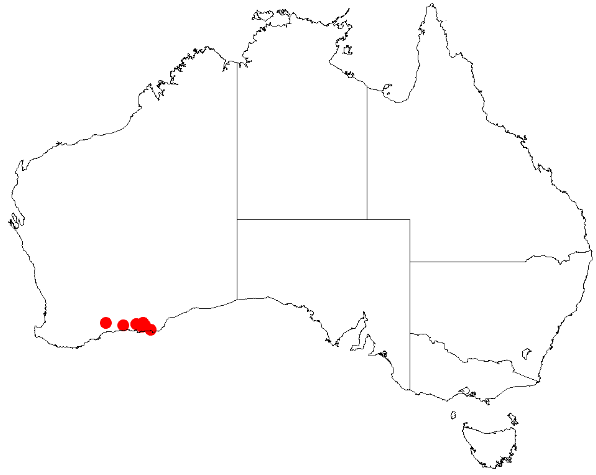 Scaevola archeriana Occurrence data downloaded from Australasian Virtual Herbarium on 12 May 2019